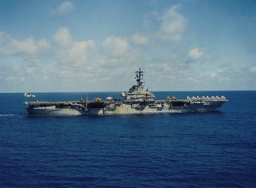 A U.S. Navy Grumman S-2E Tracker of Carrier Anti-Submarine Air Group 57 (CVSG-57) is about to land on the anti-submarine carrier USS Hornet (CVS-12) off Vietnam on 5 December 1968. CVSG-57 was deployed aboard the Hornet to Vietnam from 30 September 1968 to 12 May 1969. Two colourful Grumman US-2 Tracker target tugs and four S-2Es are parked on deck, as are a Grumman E-1B Tracer of Carrier Airborne Early Warning Squadron 111 (VAW-111) Det.12 "Hunters" and two Sikorsky SH-3A Sea Kings of Helicopter Anti-Submarine Squadron 2 (HS-2) "Golden Falcons".